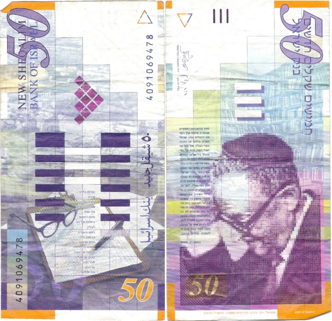 Obverse & Reverse side of a 50 NIS bill